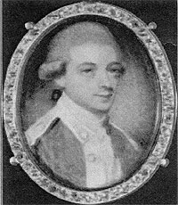 Joseph Galloway (1731-1803)